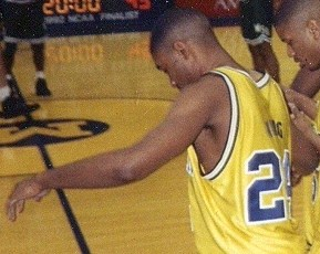 Jimmy King in 1993.